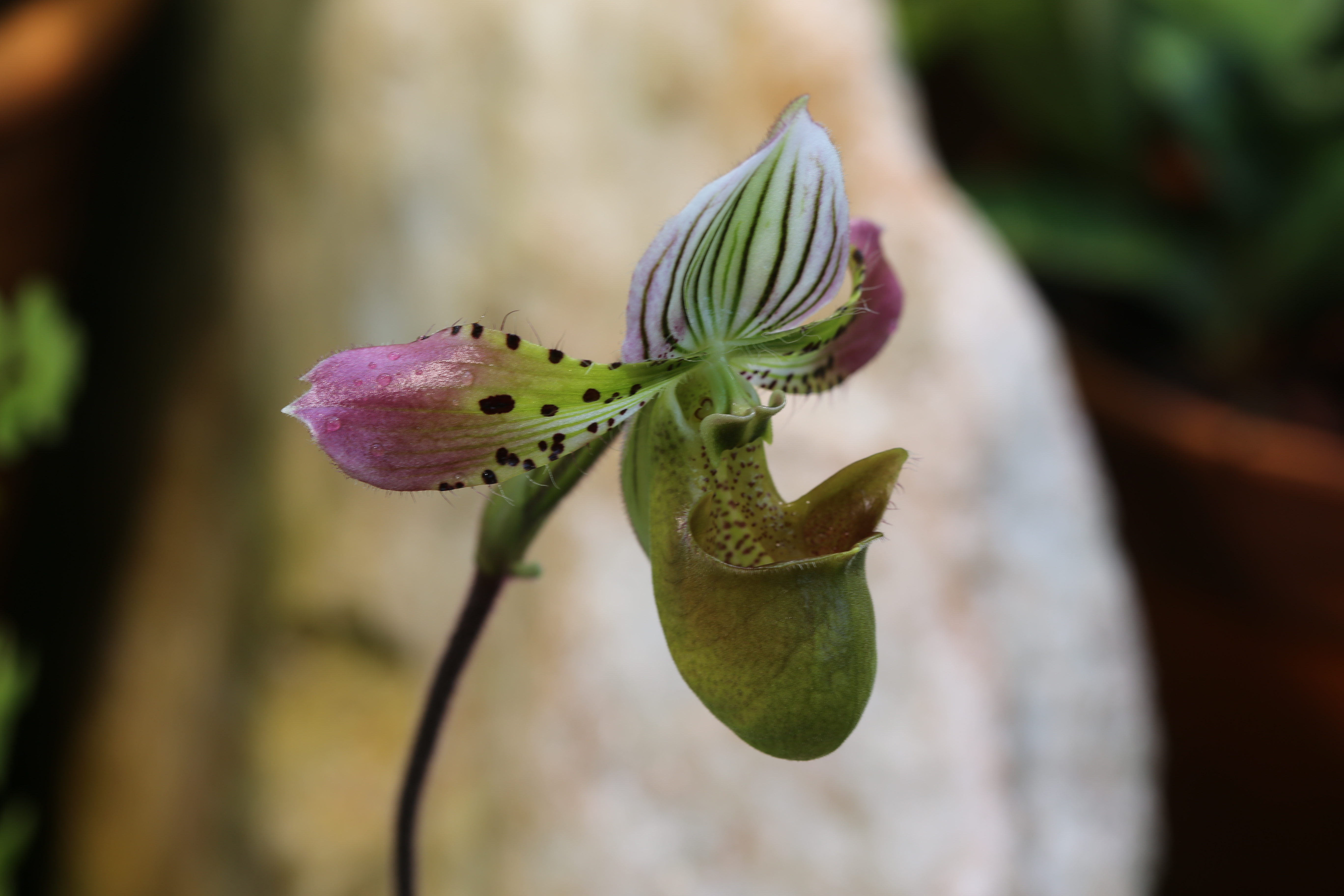 Paphiopedilum acmodontum at Gothenburg Botanical Garden in 2015. Plant id: 1990-V0031 p G -- Sönnerm.